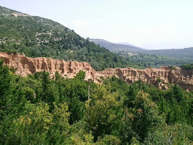 Himara town/fortress, Albania